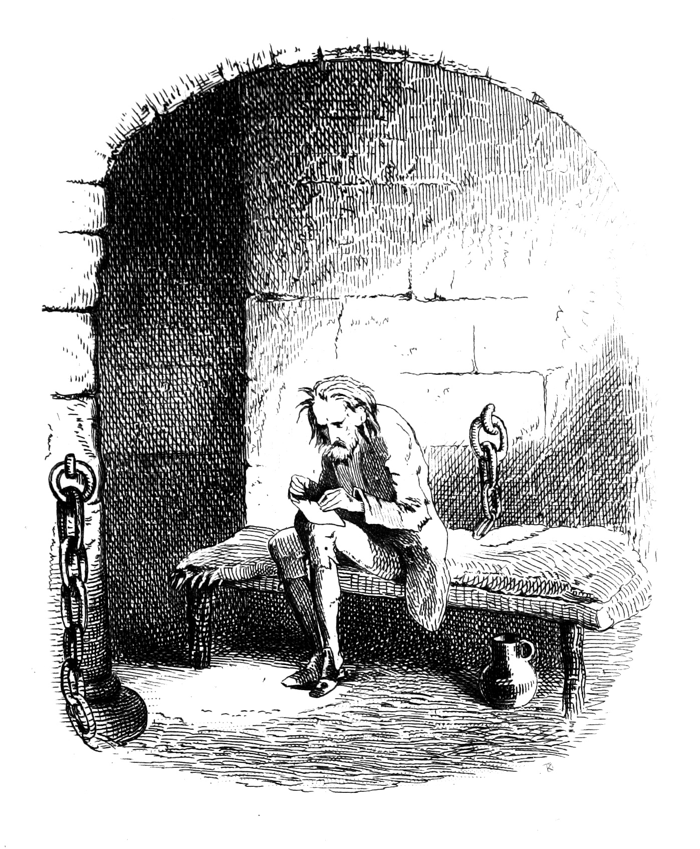 A photograph of an engraving in The Writings of Charles Dickens volume 20, A Tale of Two Cities, titled "At Work".